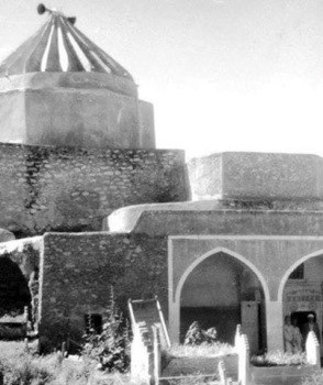 Al-Imam Al-Baher old Photo